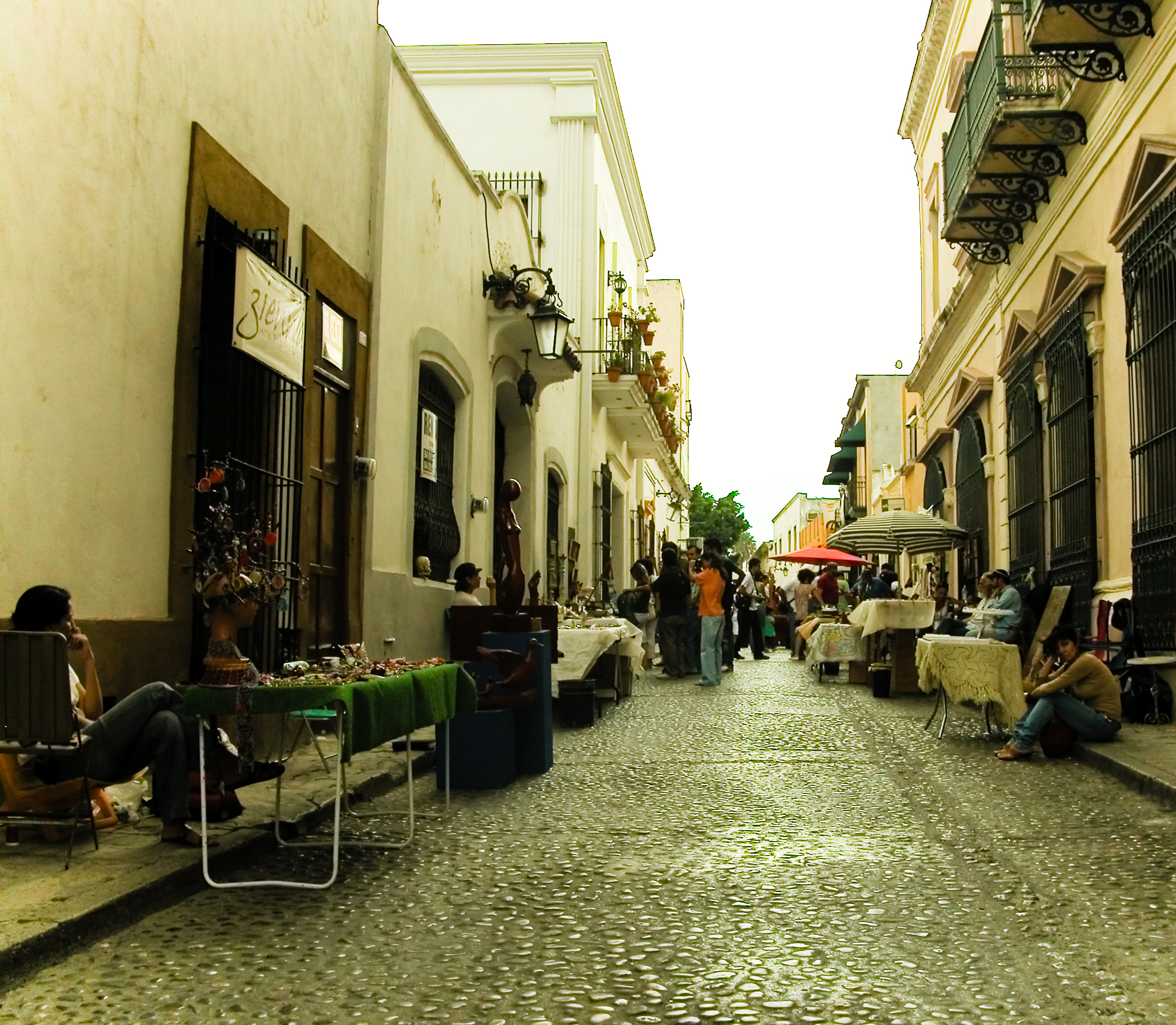 View of the olld downtown in Monterrey Mexico.